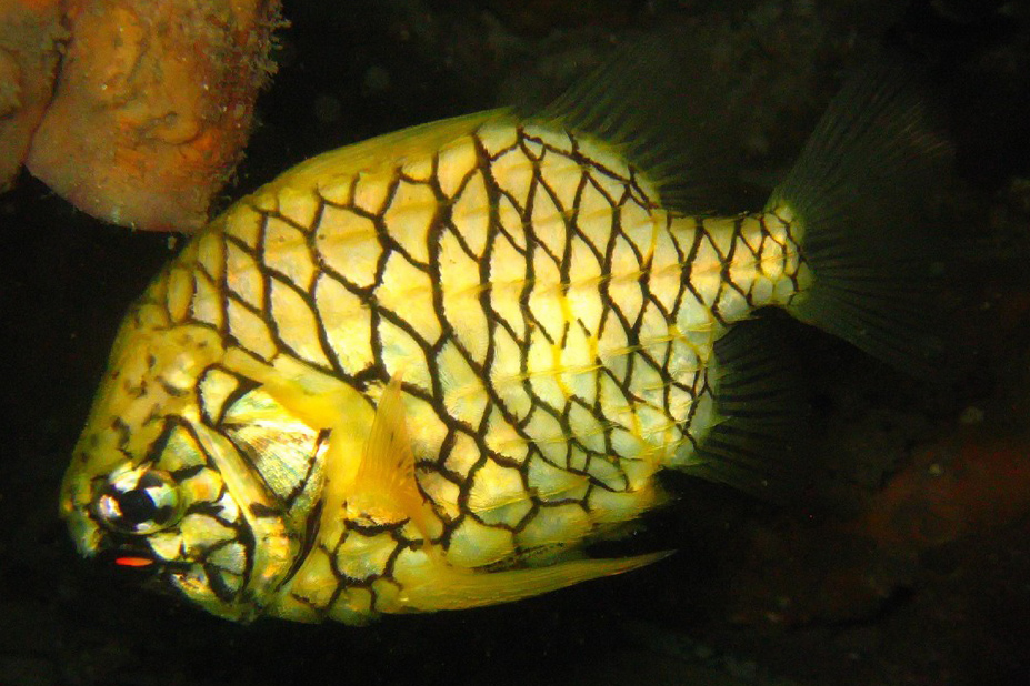 Pineapplefish (Cleidopus gloriamaris). Fly Point, Port Stephens, NSW